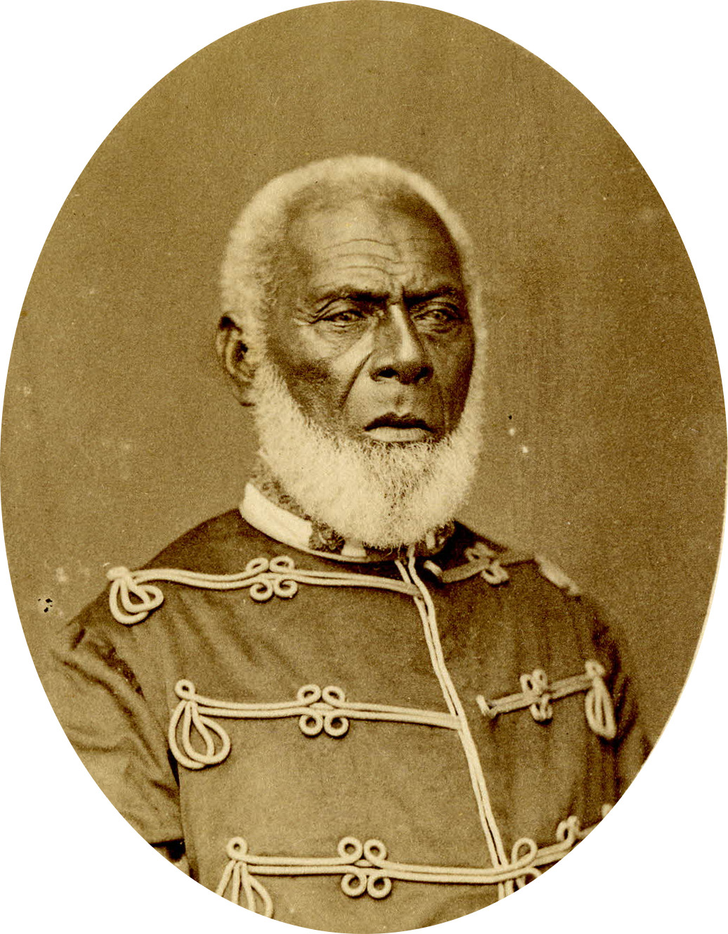 Portrait of George Tupou I, King of Tonga. This image is in an album of photographs representing imagery of Tonga belonging to James Edge-Partington. It is unknown whether Edge-Partington photographed these images himself or whether they have been photographed by different individuals.